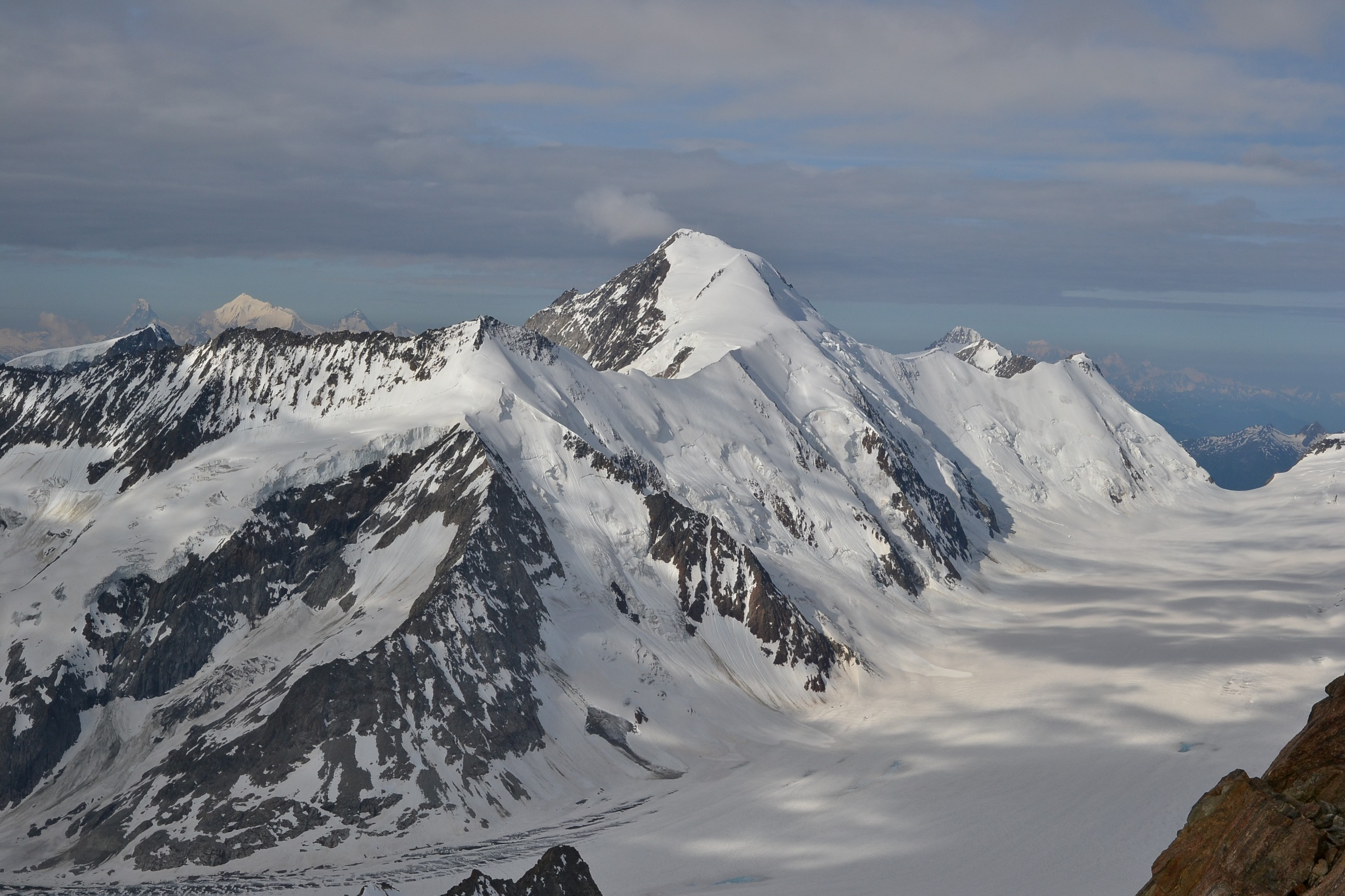 Aletschhorn (view from north)